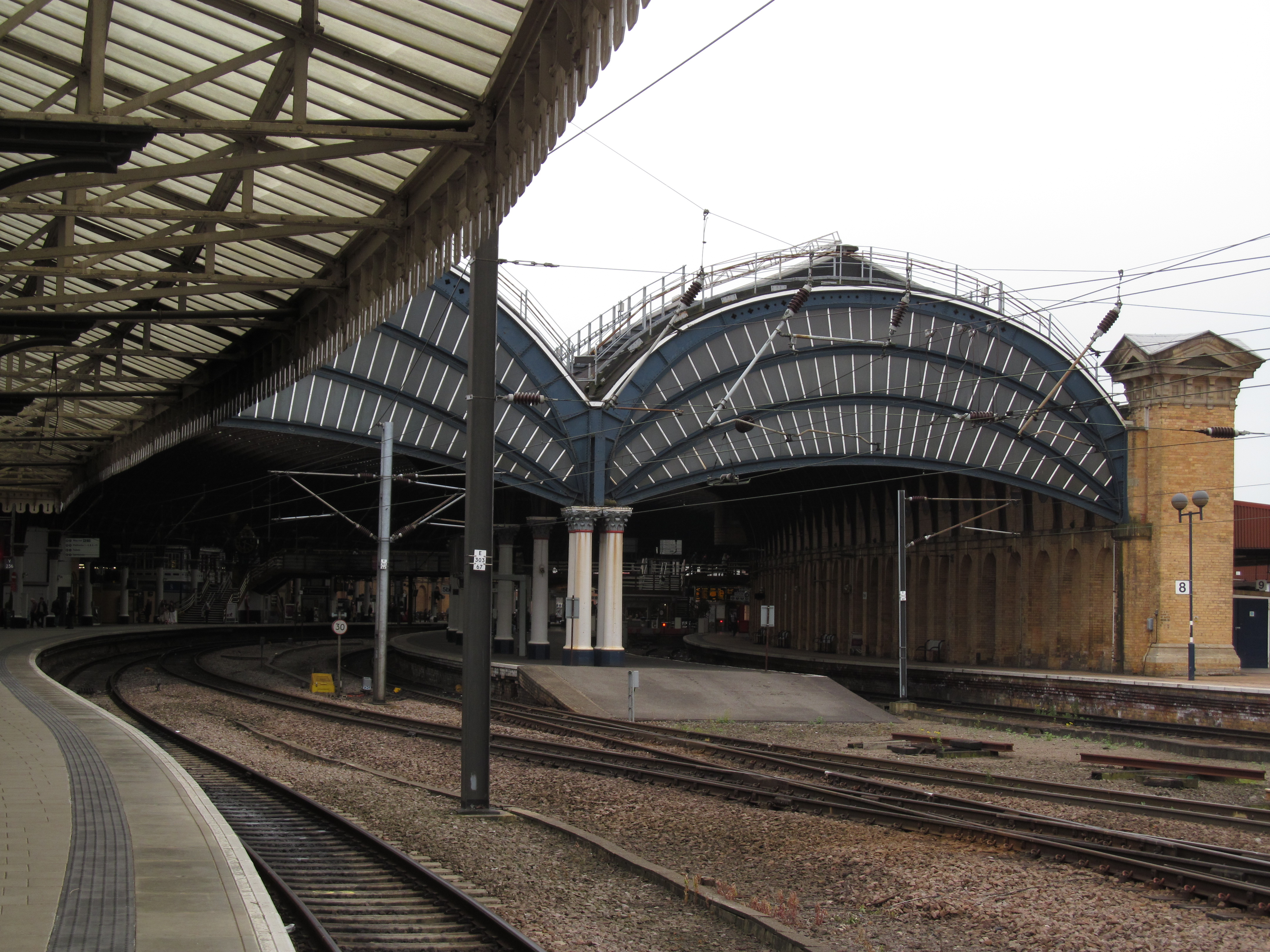 York railway station approach